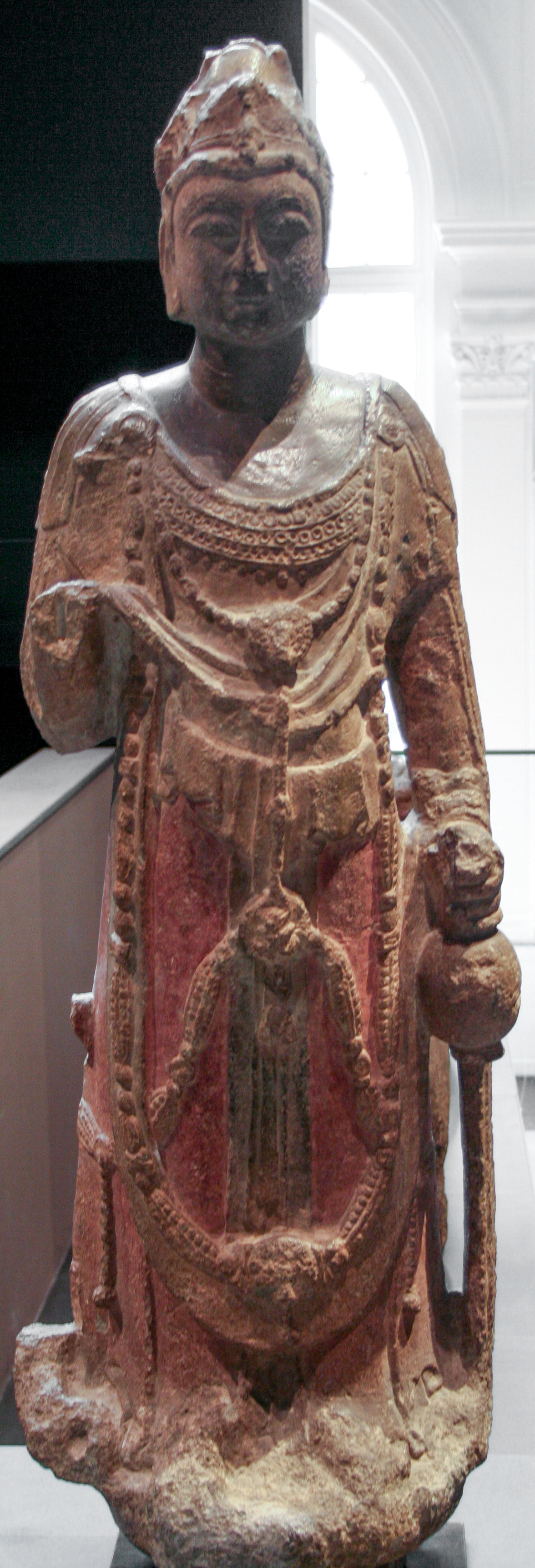 Avalokitesvara Boddhisattva (Guanyin). Stone. Sui Dynasty (581 – 618). Cernuschi Museum, Paris, France.